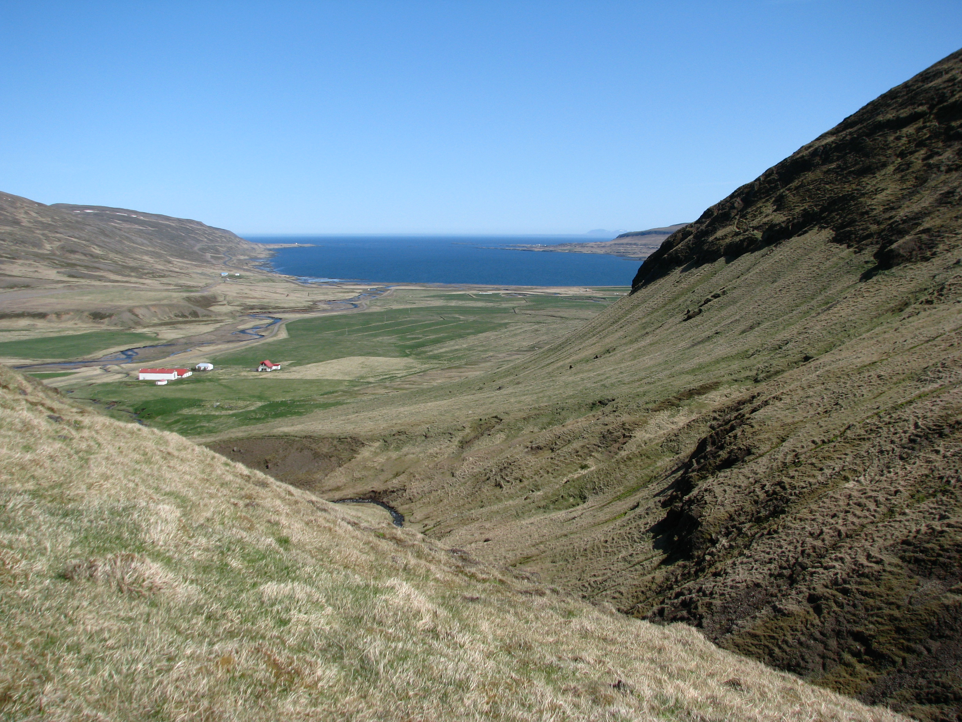 The Kollafjöorður, a fjord in north Iceland